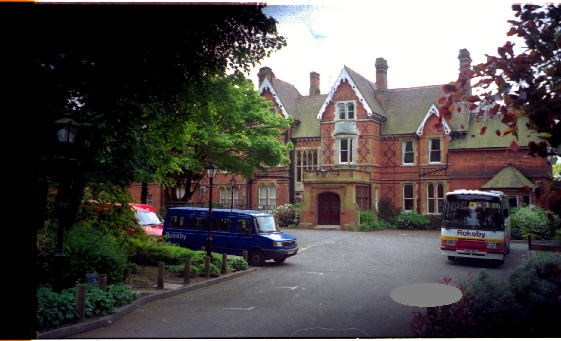 Rokeby Preparatory School, Coombe Croft, George Rd, Coombe, Kingston upon Thames, England KT2 7PB